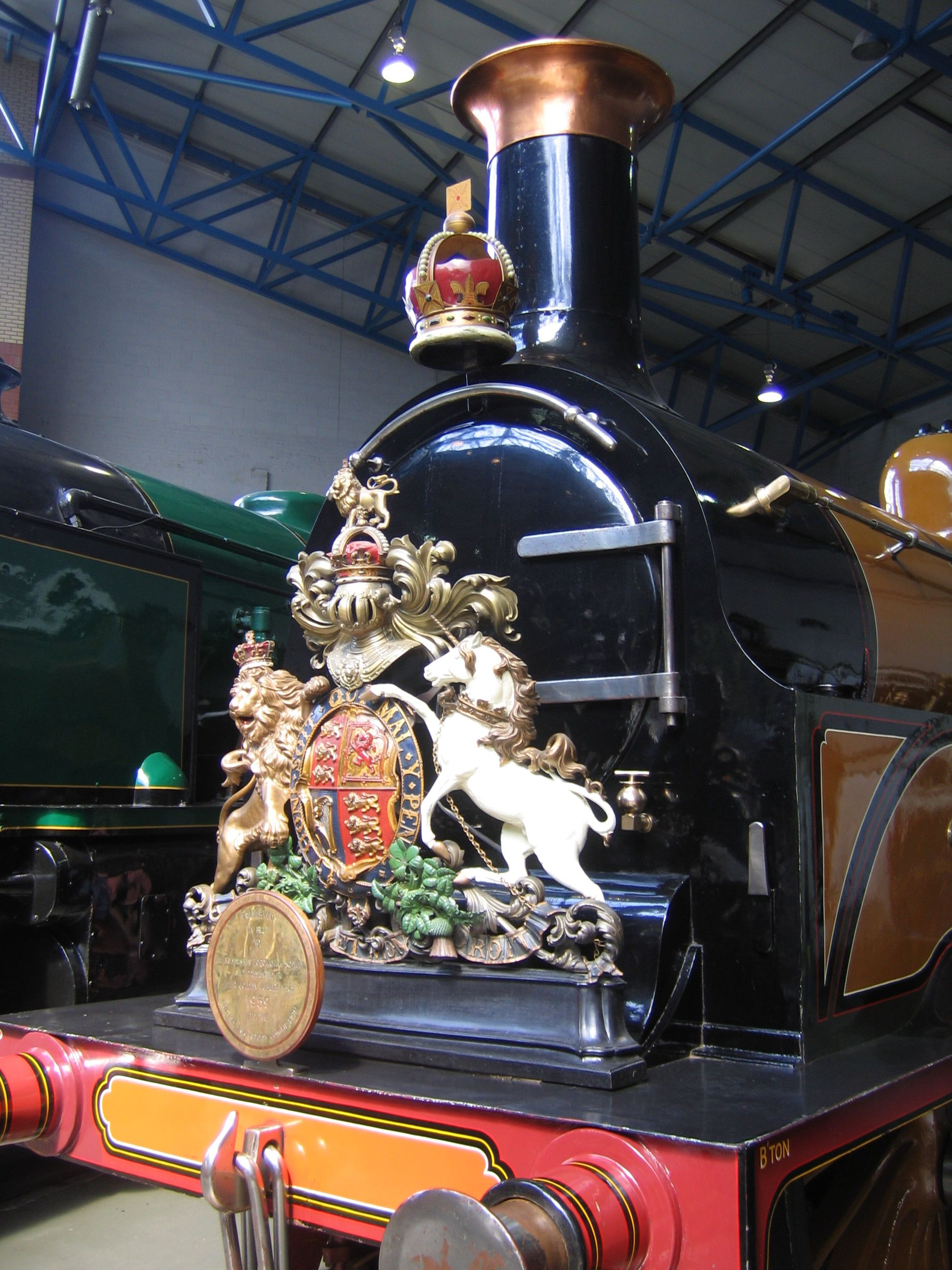 Decorations on LB&SCR B1 class no. 214 Gladstone to celebrate the Diamond Jubilee of Victoria of the United Kingdom, National Railway Museum, York